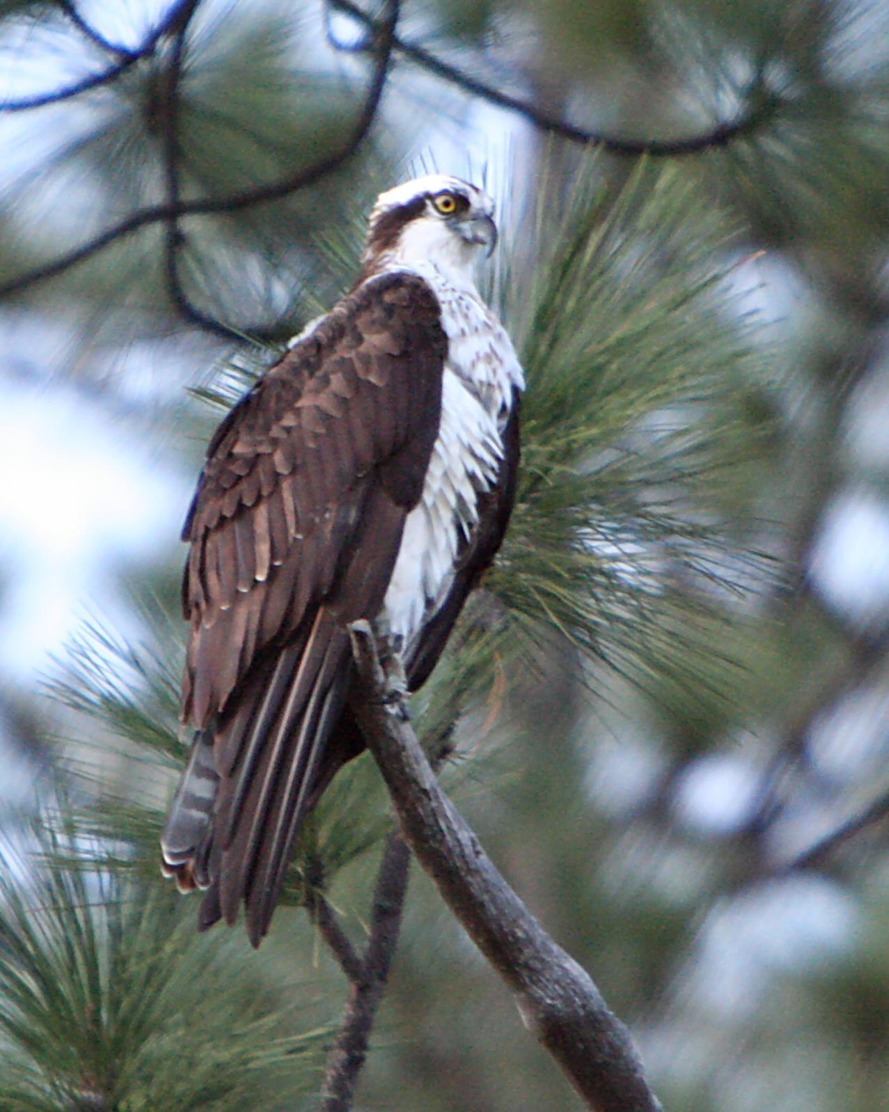 Osprey Pandion haliaetus, California